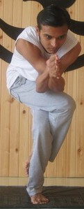 eagle pose,Garudasana